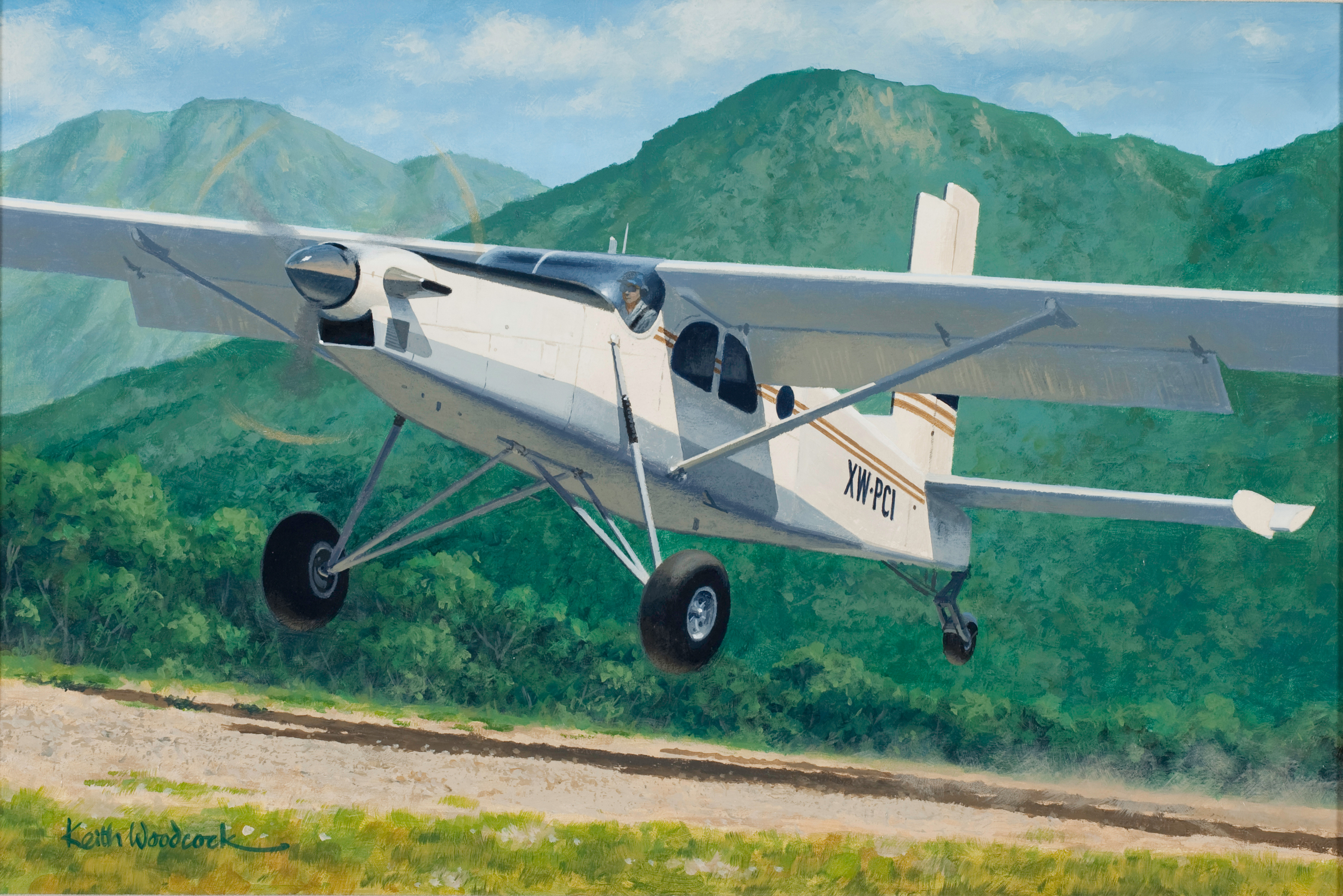 Keith Woodcock Oil on Canvas, 2010 Donated Courtesy of Owen Lee Gossett Continental Air Service, Inc. (CASI) provided essential contract flying during the war in Southeast Asia in support of the CIA and other US Government organizations. Included in CASI’s fleet was the Pilatus PC-6 Turbo Porter depicted in the painting. This single-engine turboprop aircraft was known for its unique STOL (short takeoff and landing) capability, making it ideal for “up country” missions operated from primitive dirt landing sites, often flying in poor weather, with few navigational aids, under the constant threat of enemy fire, and in the midst of towering mountains and unforgiving karst formations. CASI played a vital role during the war, delivering food, medicine, and other essential supplies to isolated outposts as well as rescuing downed airmen throughout the war-torn Lao Kingdom. CASI pilot Lee Gossett flew his trusty PC-6 Turbo (shown in the painting with Lao registration XW-PCI) during the late 1960s and early 1970s, fondly recalling, “The old girl brought me home every night.” The painting is a tribute to this historic aircraft and CASI’s support to CIA operations in Southeast Asia. For more information on CIA history and this painting please visit